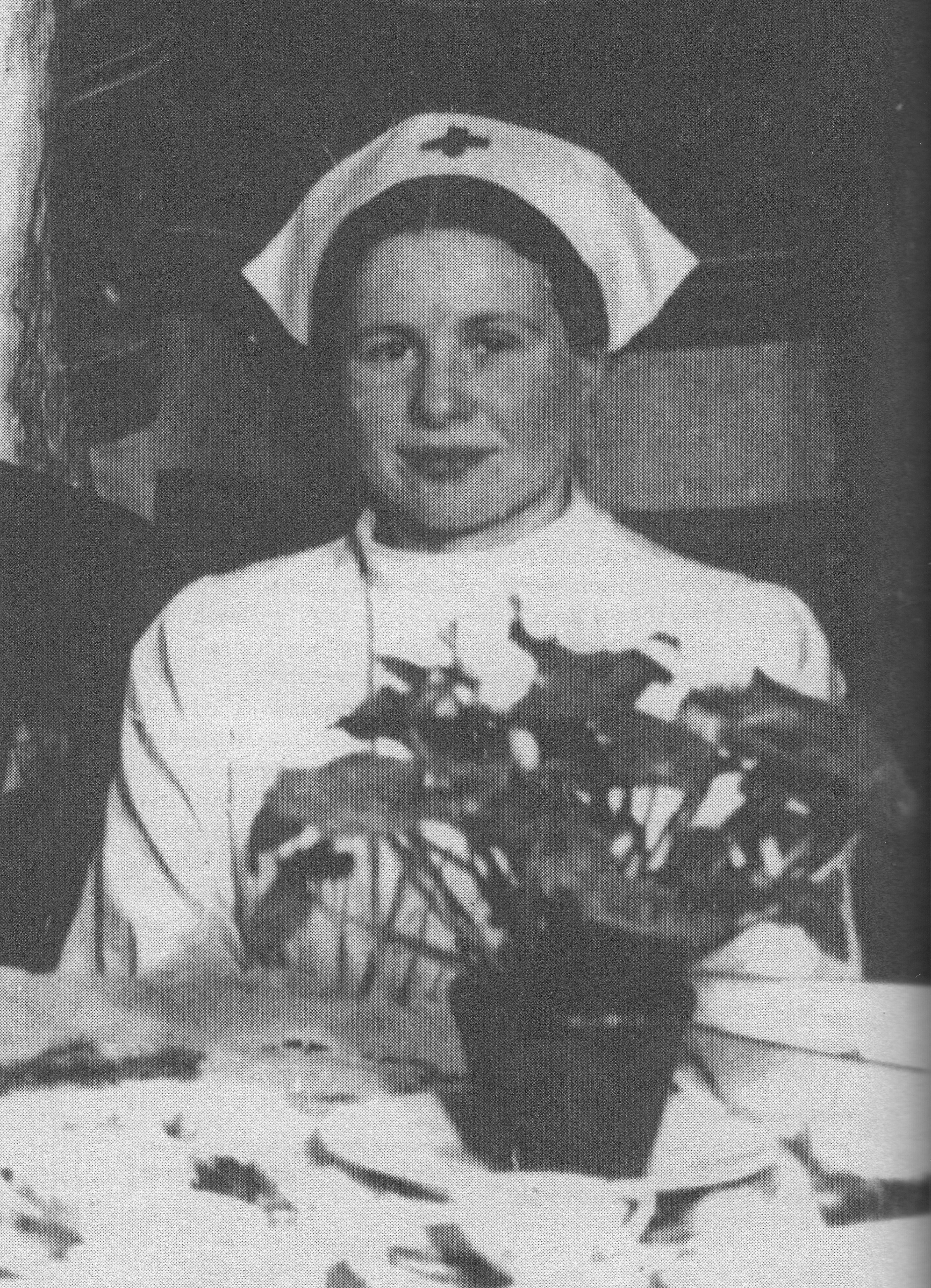 Irena Sendler (Poland) on Christmas Eve of 1944. Anti-nazi activist, she was recognised by the State of Israel as Righteous Among the Nations.